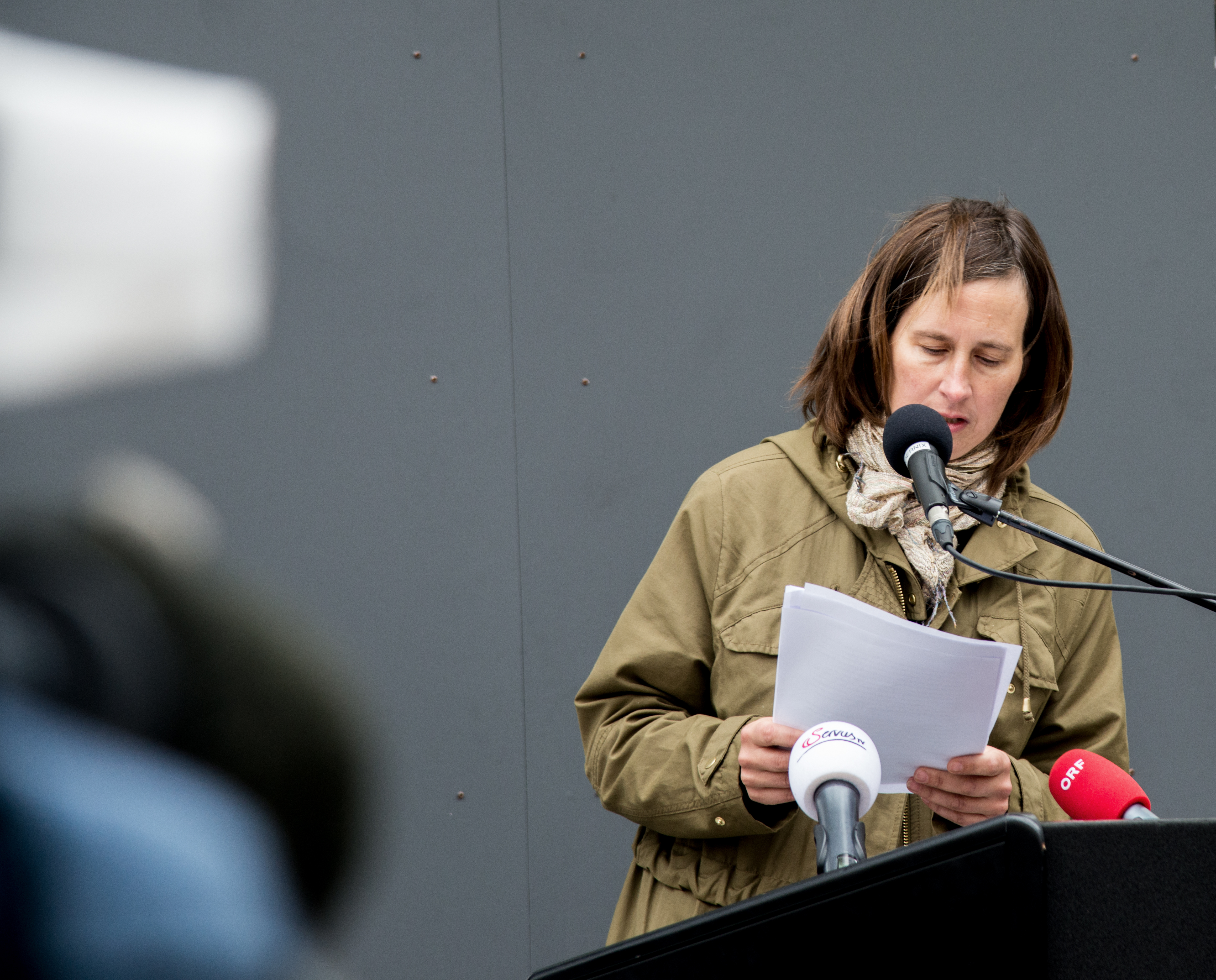 Kathrin Röggla speaks at the Opening of the Monument for the Victims of Nazi Military Justice at the Ballhausplatz in Vienna